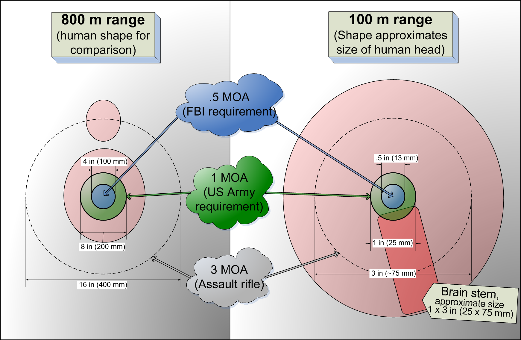 Graphical comparison of various levels as expressed in in MOA (Minute of Arc) at 800 m and 100 m